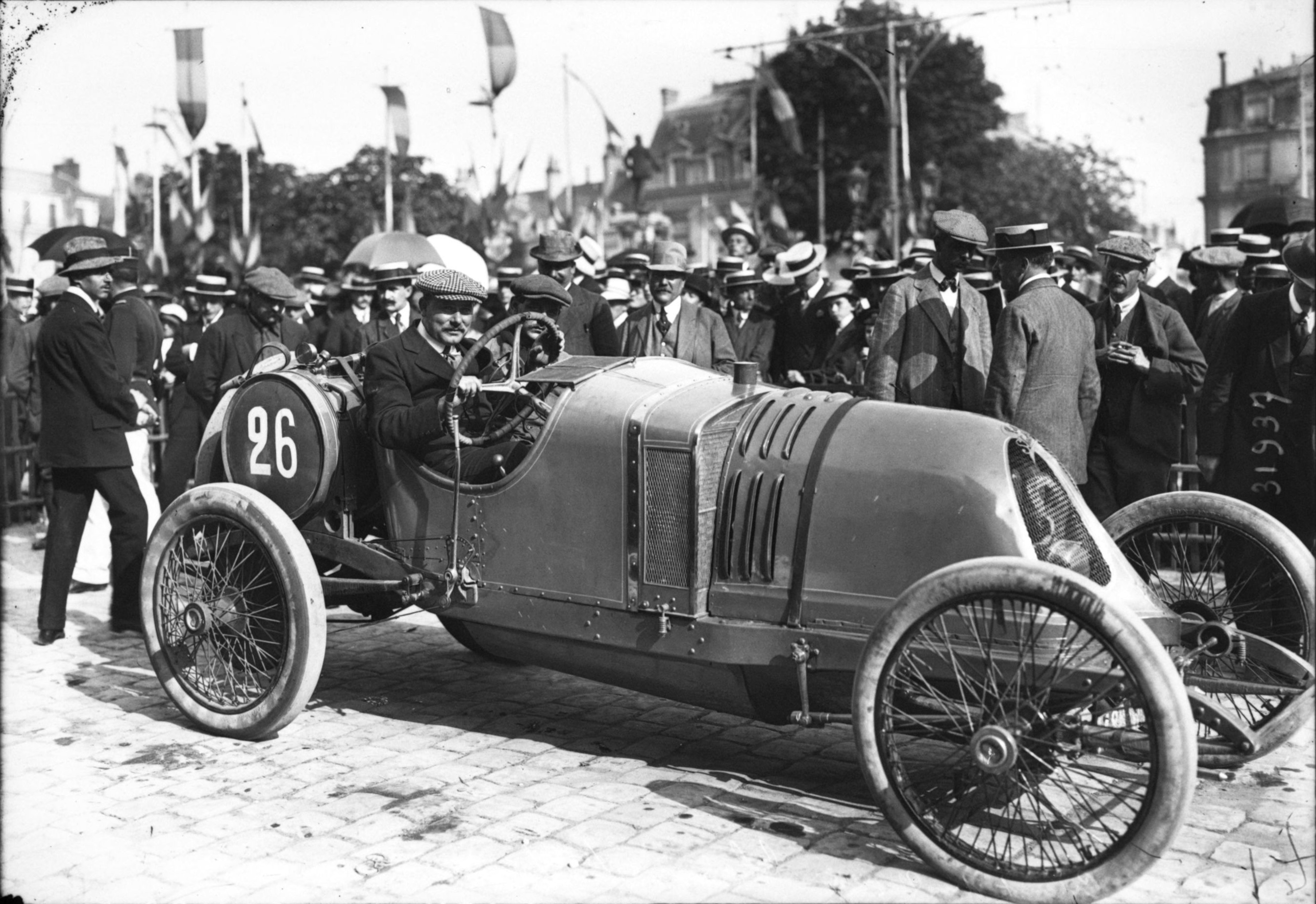 René Thomas at the 1913 Grand Prix de France at Le Mans.